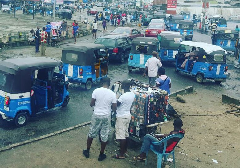 African working in the City of Warri in Delta state Nigeria This is an image of "African people at work" from Nigeria